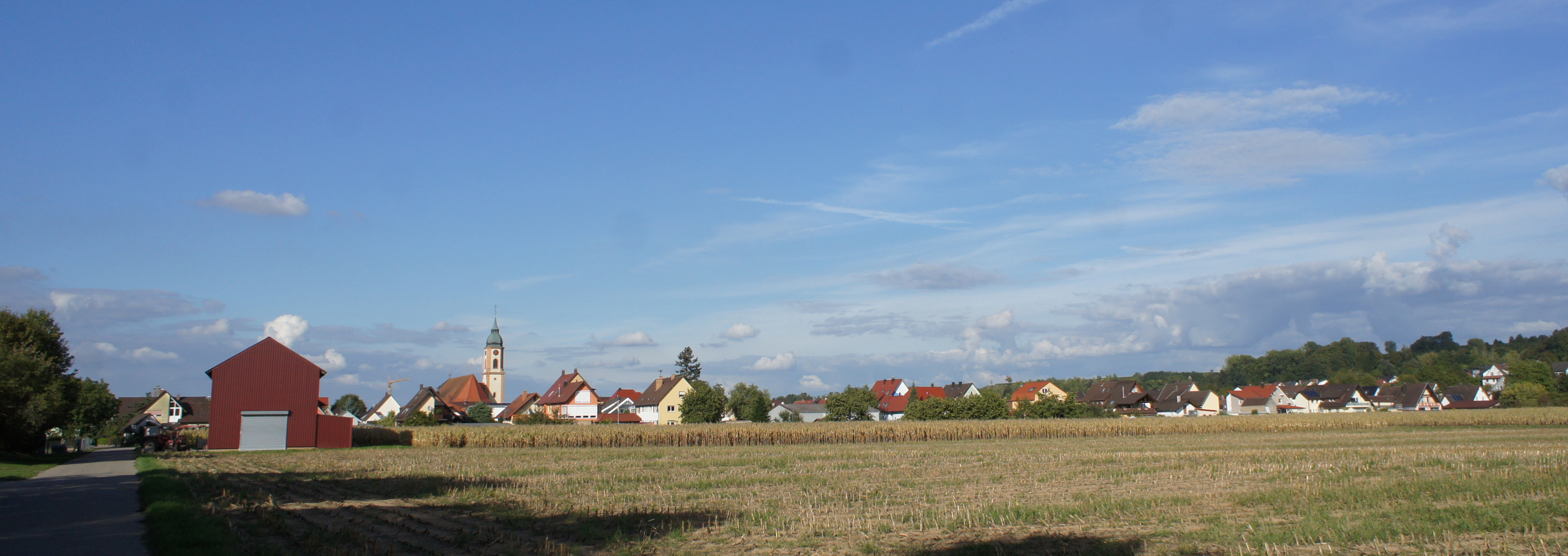 Ringsheim Panorama viewed from south